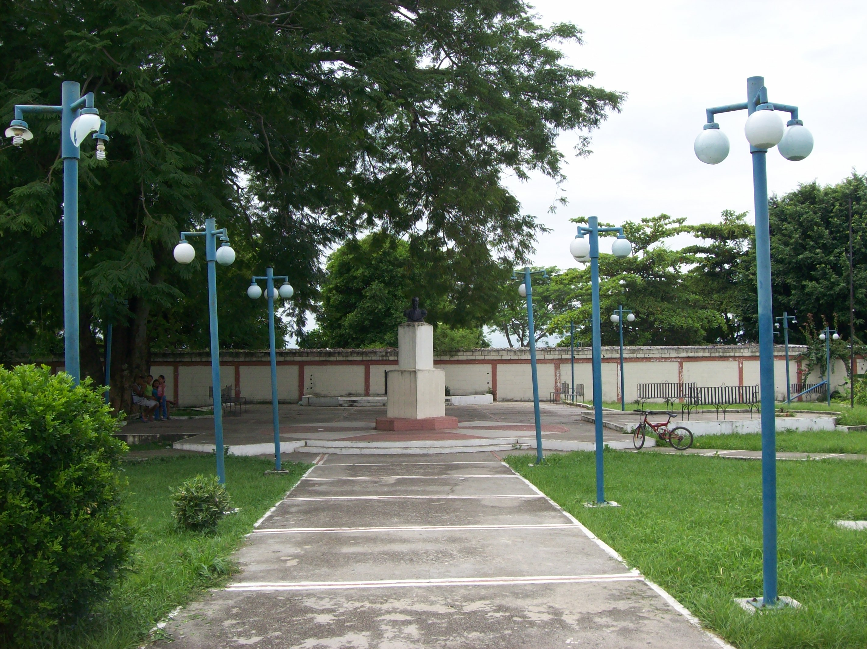 Bolívar square of Farriar, Capital of the Municipality Veroes, Yaracuy state. Venezuela